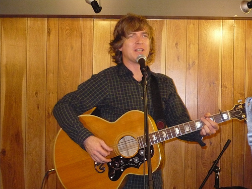 Matthew Caws playing an acoustic show in Toronto, Canada, January, 2008.